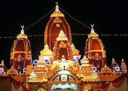 Mata Chintpurni Mandir, Sonipat